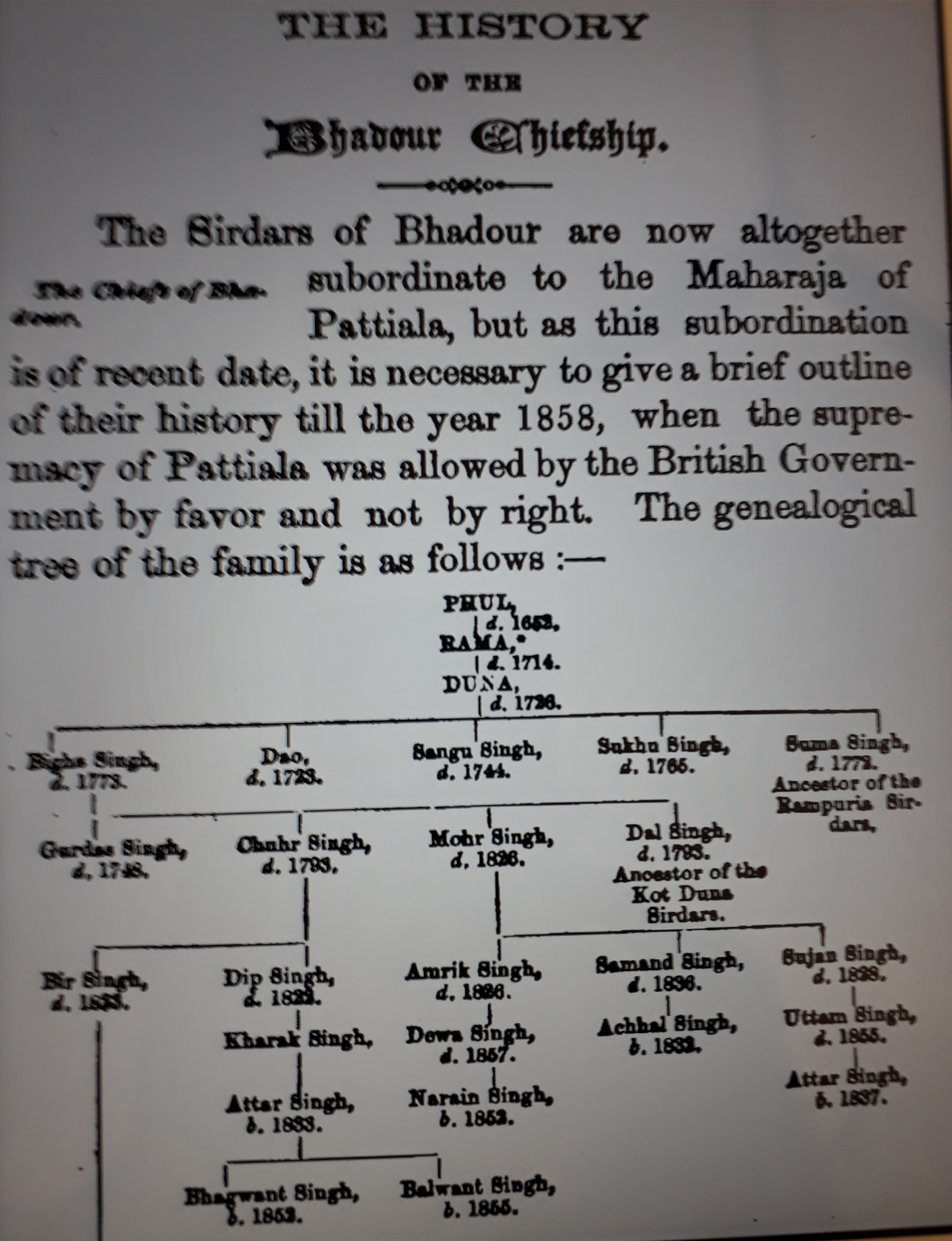 This is image of page 277 of book titled The Rajas of Punjab by Lepel H . GRIFFN printed by Punjab Printing co. LTD Lahore in 1870 illustrative of title of image.